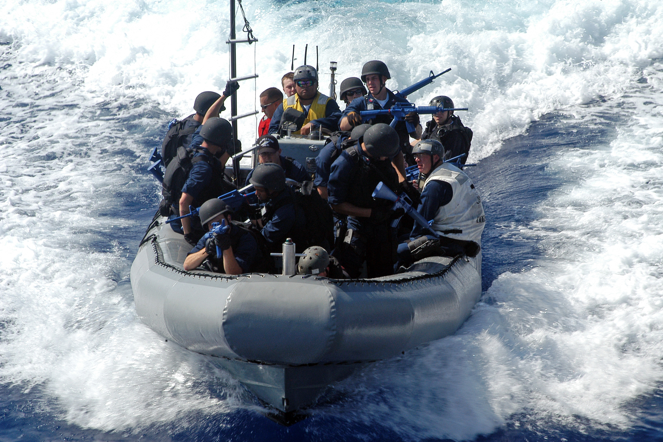 PACIFIC OCEAN (July 15, 2008) Sailors assigned to the visit, board, search and seizure team aboard the guided-missile destroyer USS John S. McCain (DDG 56) approach the ship in a rigid hull inflatable boat during a training evolution. McCain is one of seven Arleigh Burke-class guided-missile destroyers assigned to Destroyer Squadron (DESRON) 15. U.S. Navy photo by Mass Communication Specialist 2nd Class Byron C. Linder (Released)